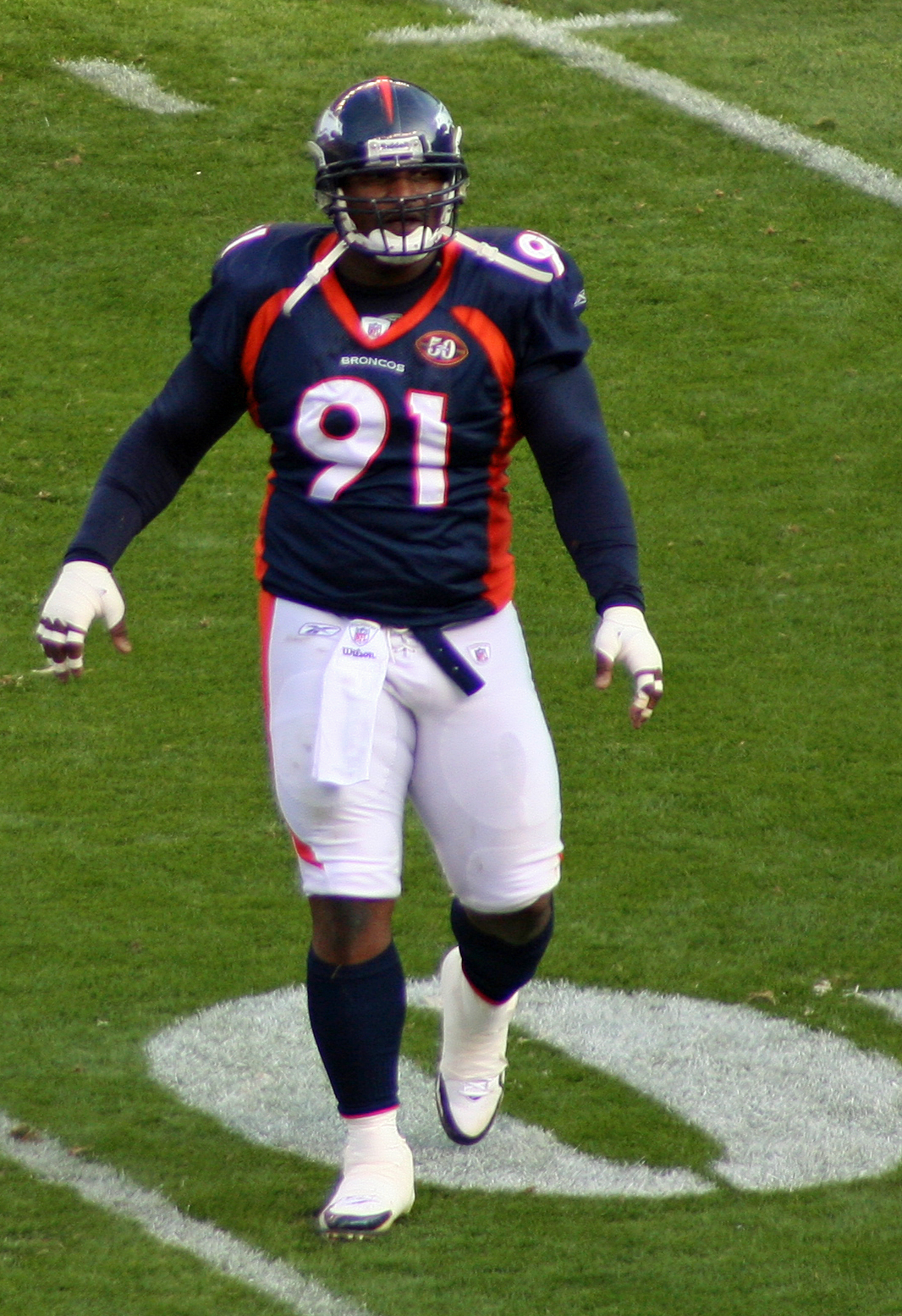 Ronald Fields, a player with the Denver Broncos American football team.